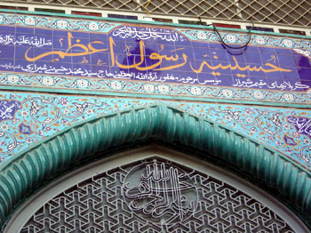 A Hussainia in Shiraz, Iran